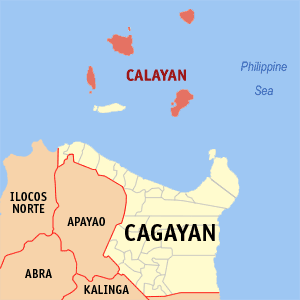 Map of Cagayan showing the location of Calayan